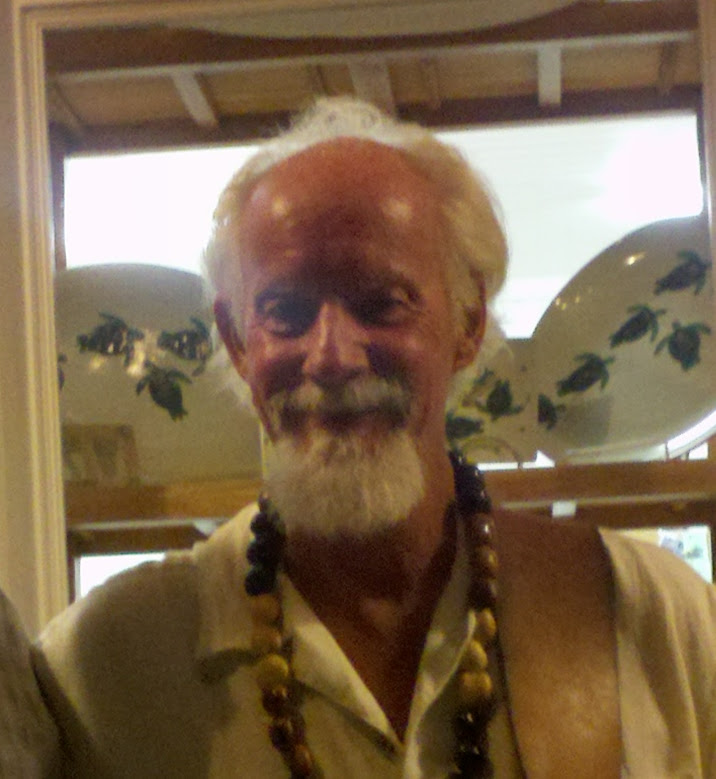 Darby Slick in Hanapepe, Kauai in 2011